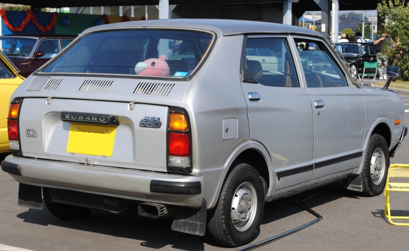 Subaru Rex 550 AIIG sedan